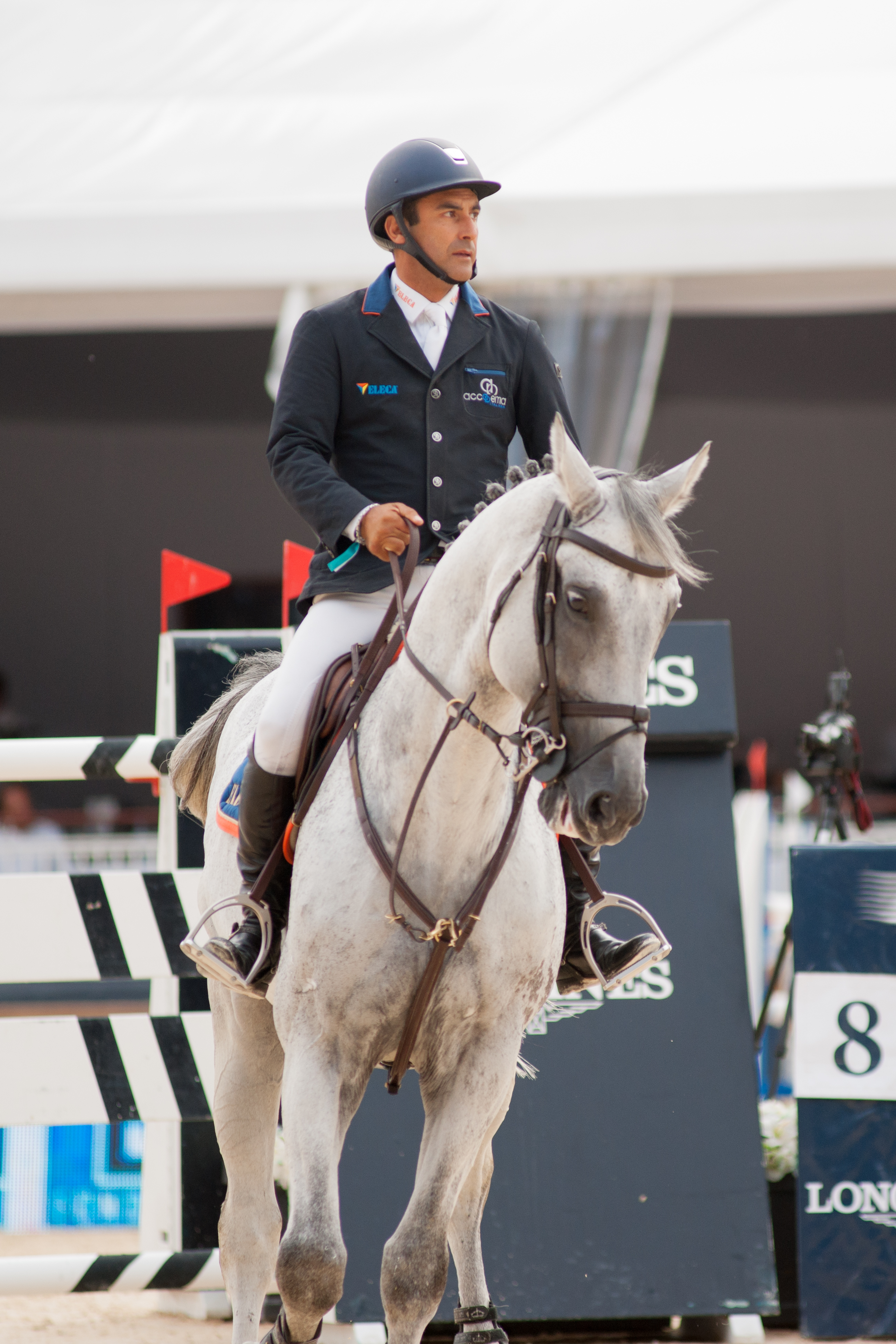 The making of this document was supported by Wikimedia CH. (Submit your project!) For all the files concerned, please see the category Supported by Wikimedia CH. 2013 Longines Global Champions Tour